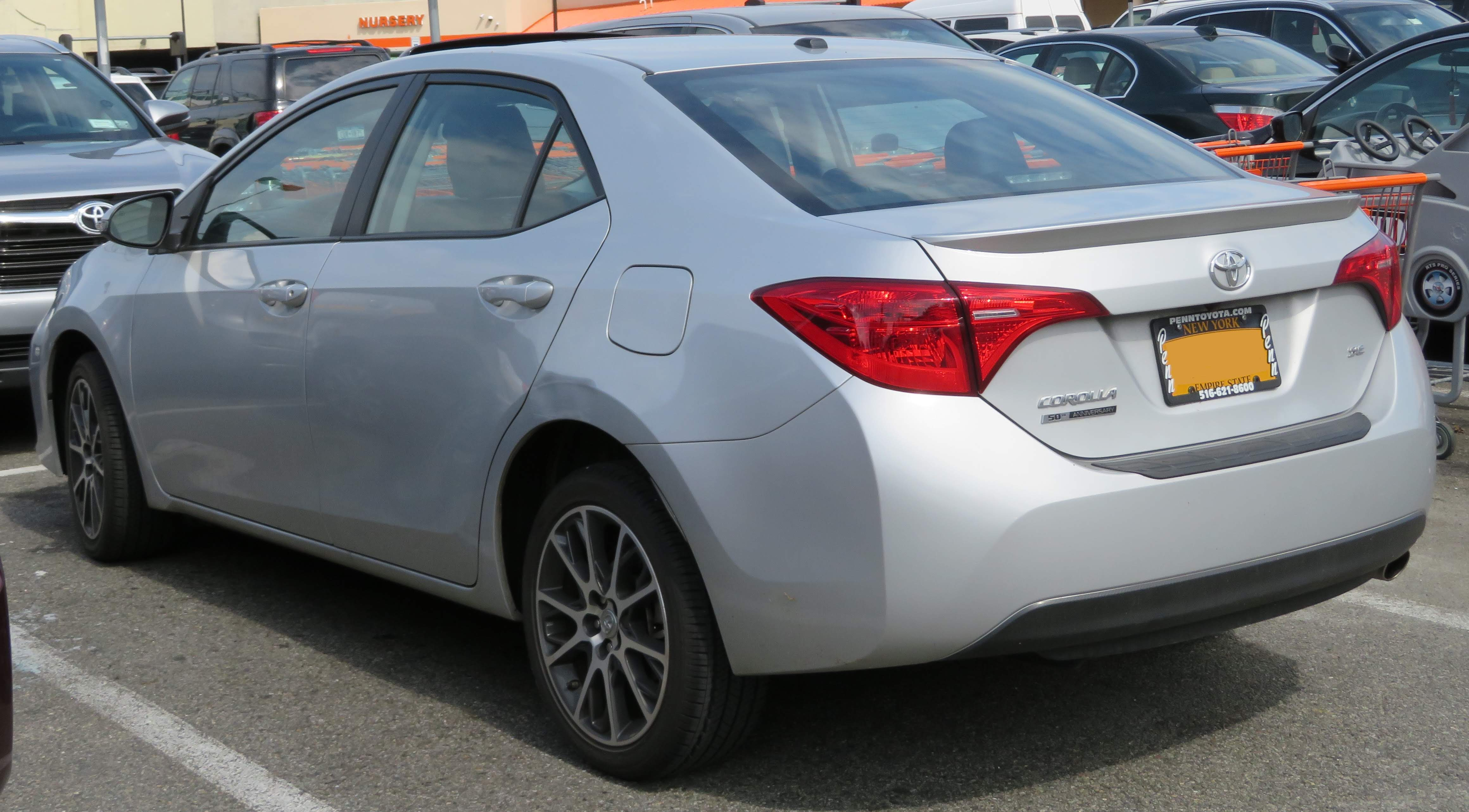 In Flushing(Queens), New York